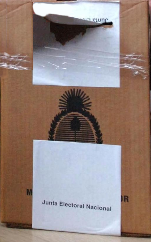 Argentine ballot box.